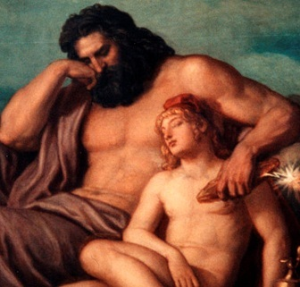 part of a cycle on the myth of Prometheus detail